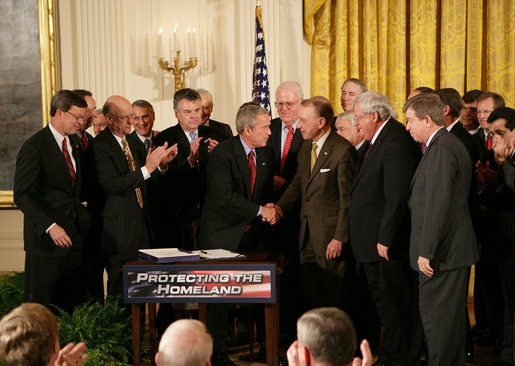 United States President George W. Bush shakes hands with U.S. Senator Arlen Specter after signing H.R. 3199, the USA PATRIOT Improvement and Reauthorization Act of 2005 in the East Room of the White House